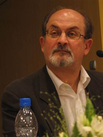 Salman Rushdie (b. 1947), British-Indian writer